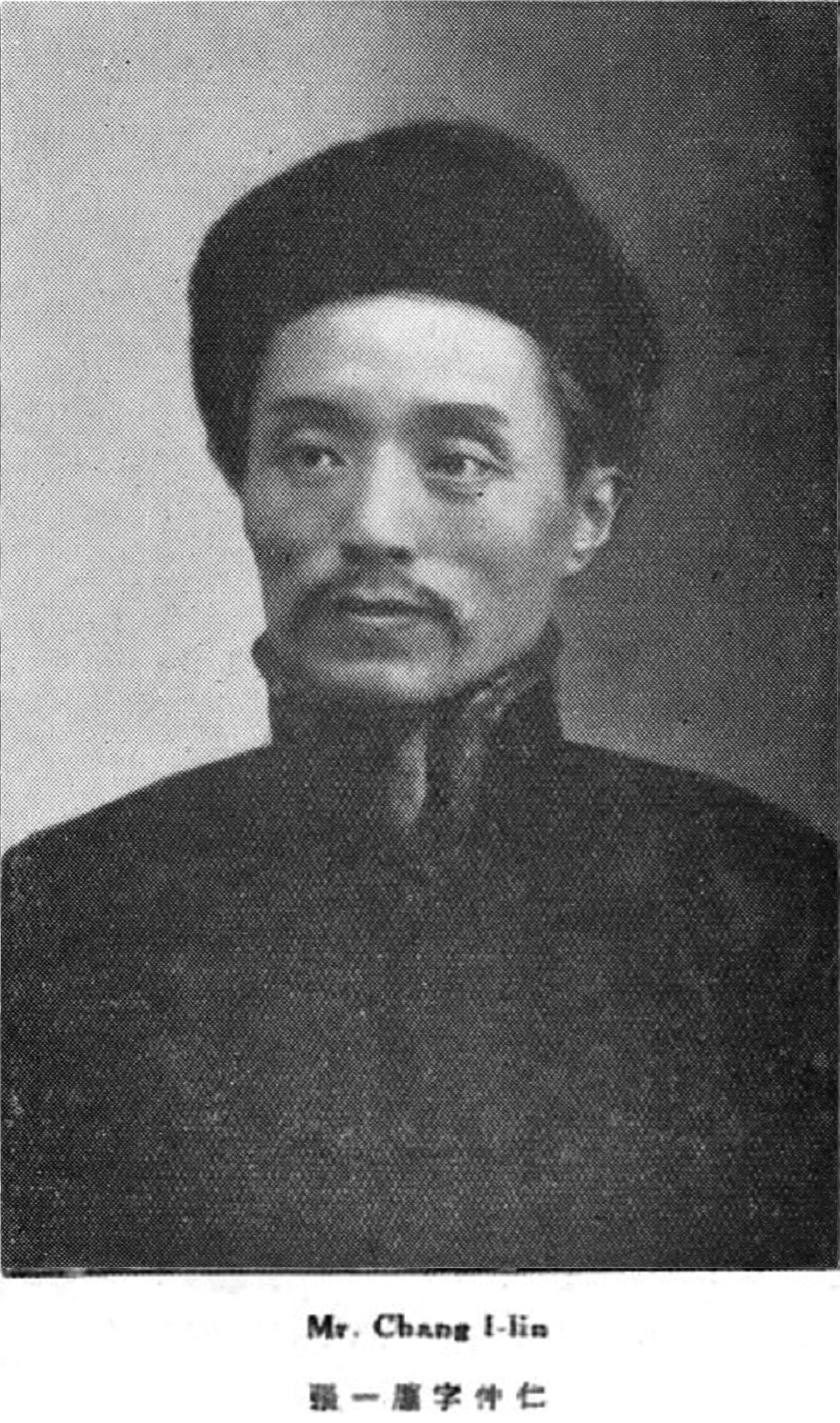 Zhang Yilin, Zhongren (1867 - 1943)